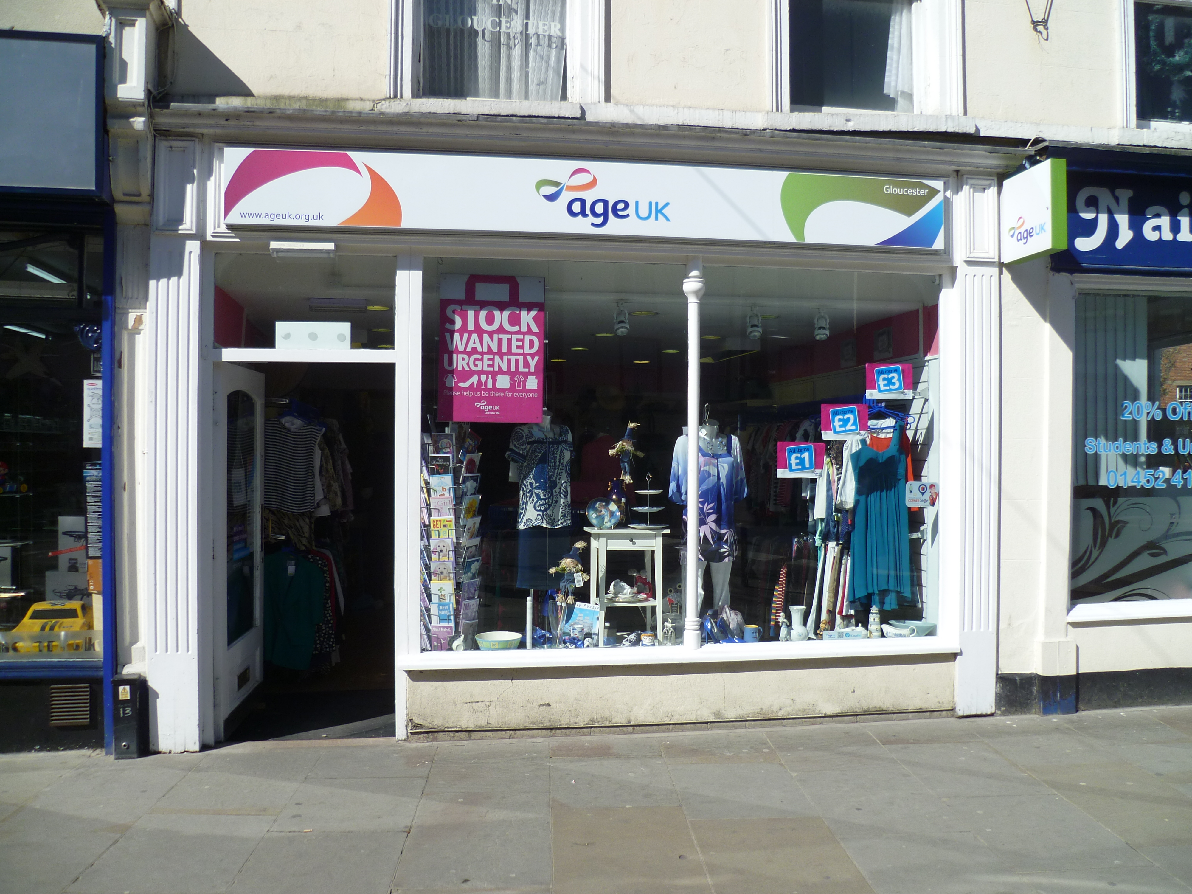 Gloucester